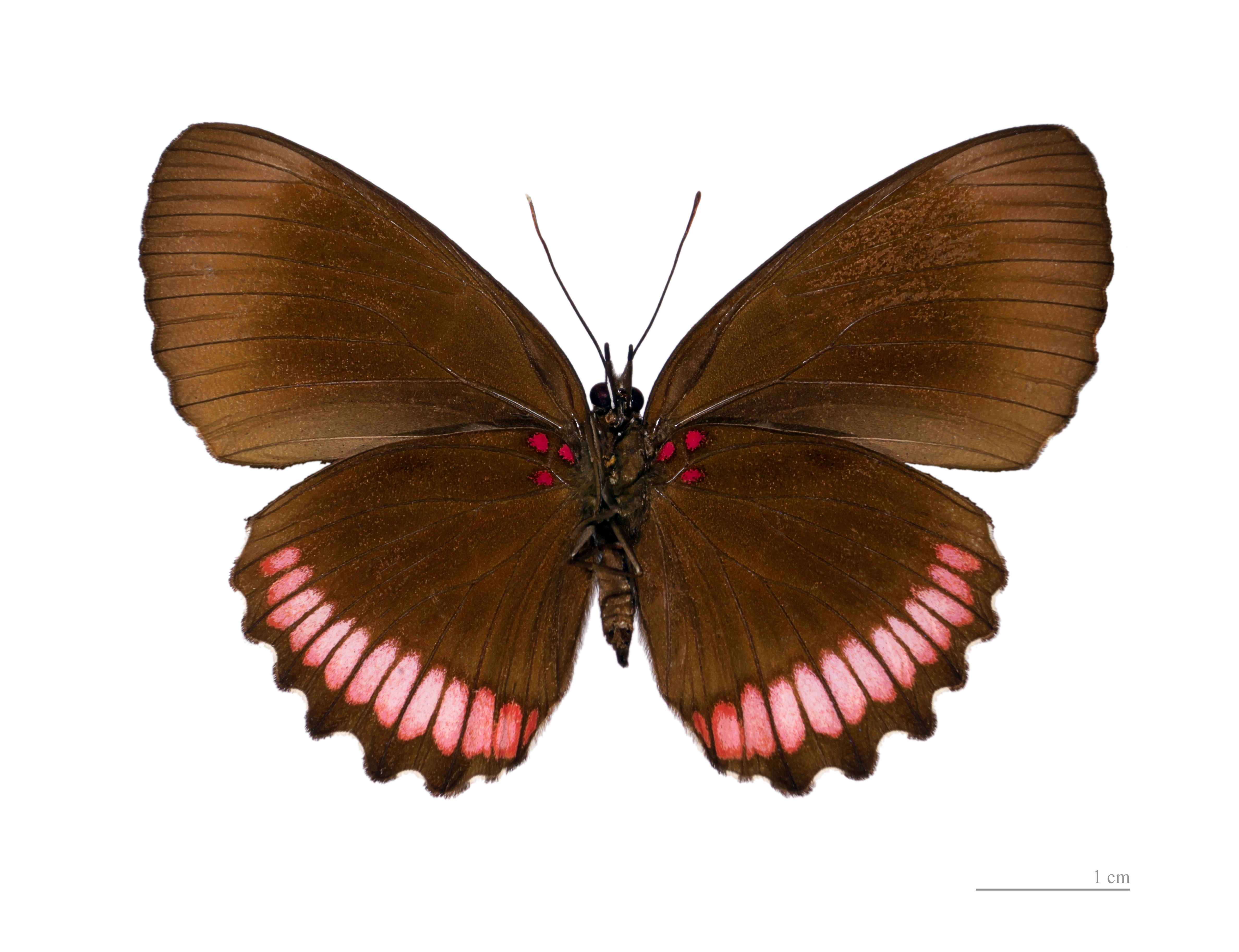 ♂ - △ Ventral side Locality : Kaw road PK31, French Guiana.